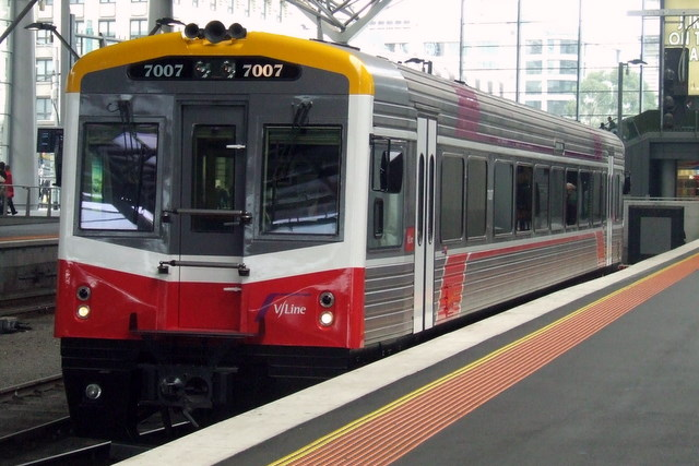 Sprinter 7007 at the new V/Line livery ministerial and media launch